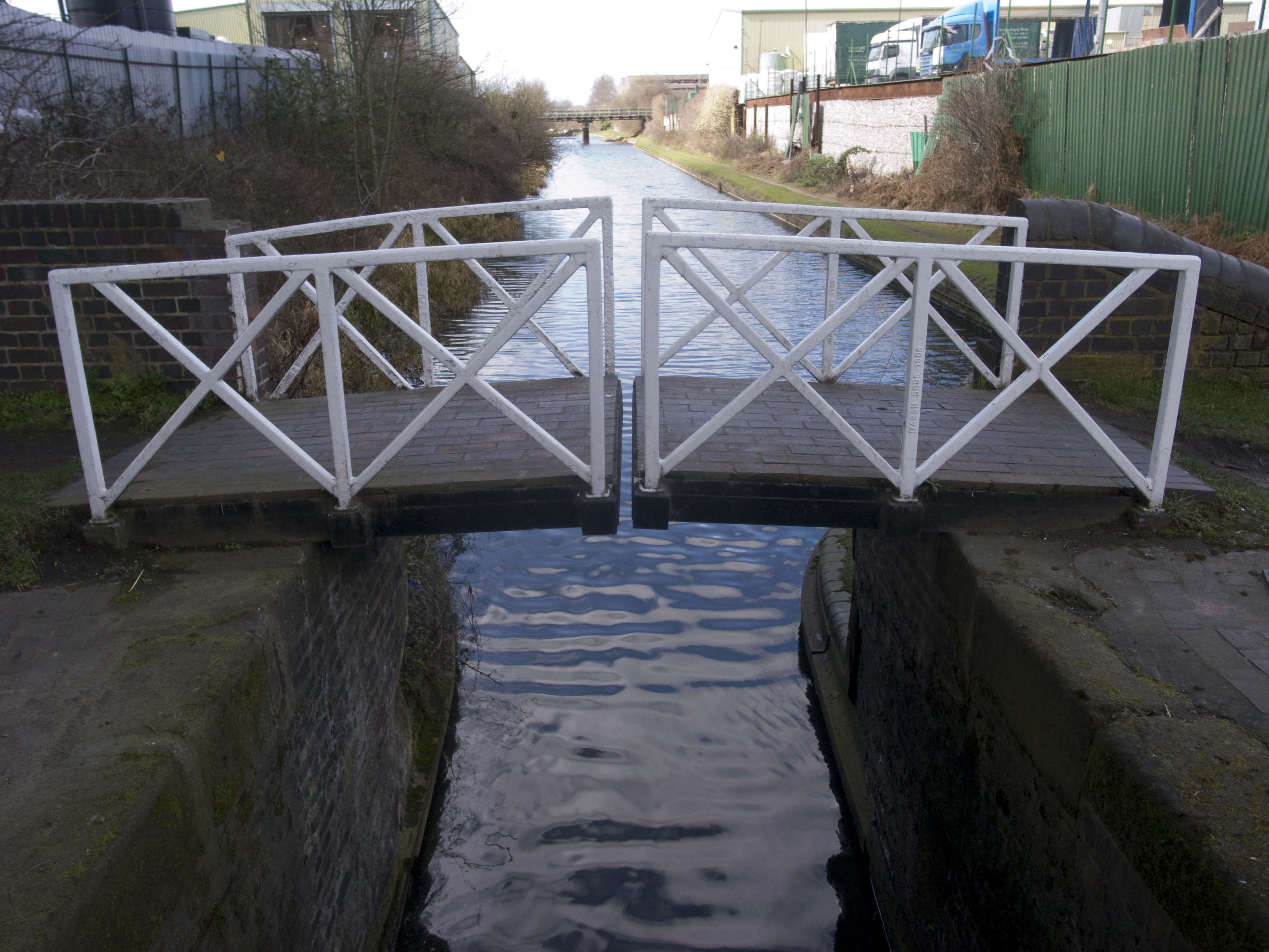 Split bridge at Spon Lane top lock, beneath the M5 motorway near Oldbury, West Midlands, England.